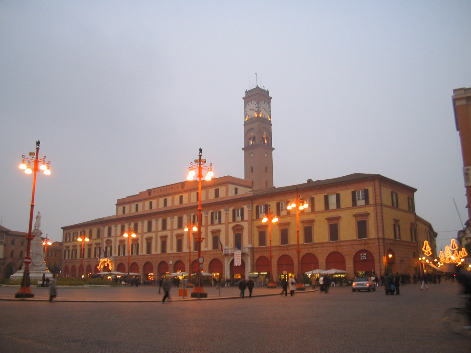 Forlì (Italy, 65 km From Bologna). That picture was taken before Christmas on the main square "Piazza Saffi".